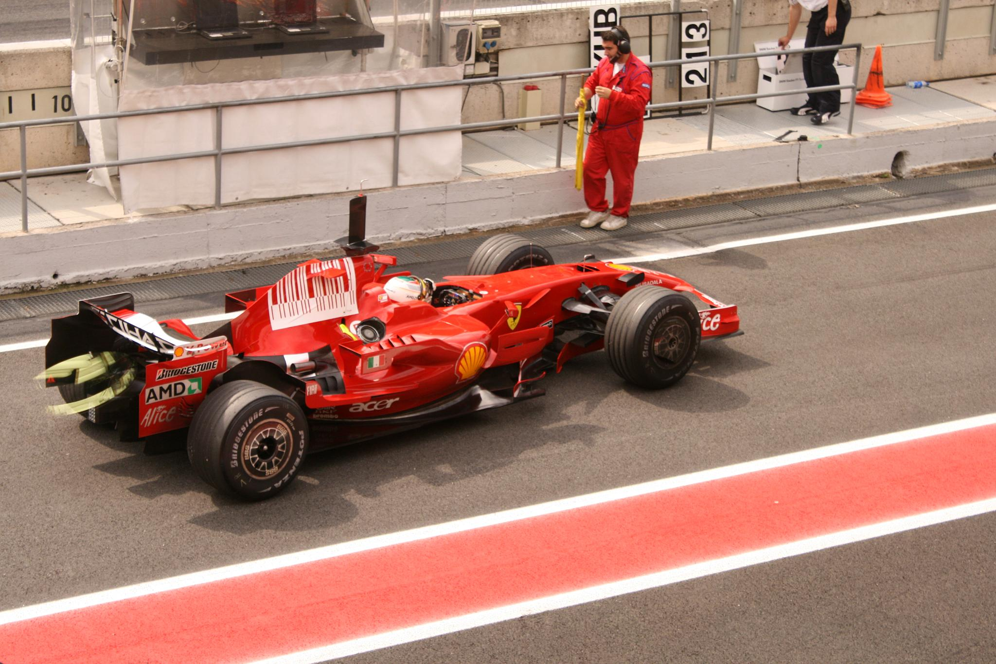 Ferrari F1 Team, taken in Montmelo, Catalogna, Spain